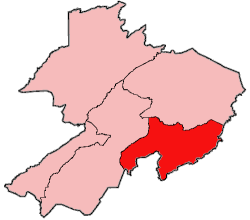 Map of Gbarpolu County, Liberia showing Bokomu District; created with the GIMP. Made by User:Acntx.